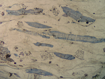 Photograph by D.L. Whitney; photo not available elsewhere online. Photomicrograph of blueschist facies metasedimentary rock (quartz-rich), plane polarized light.